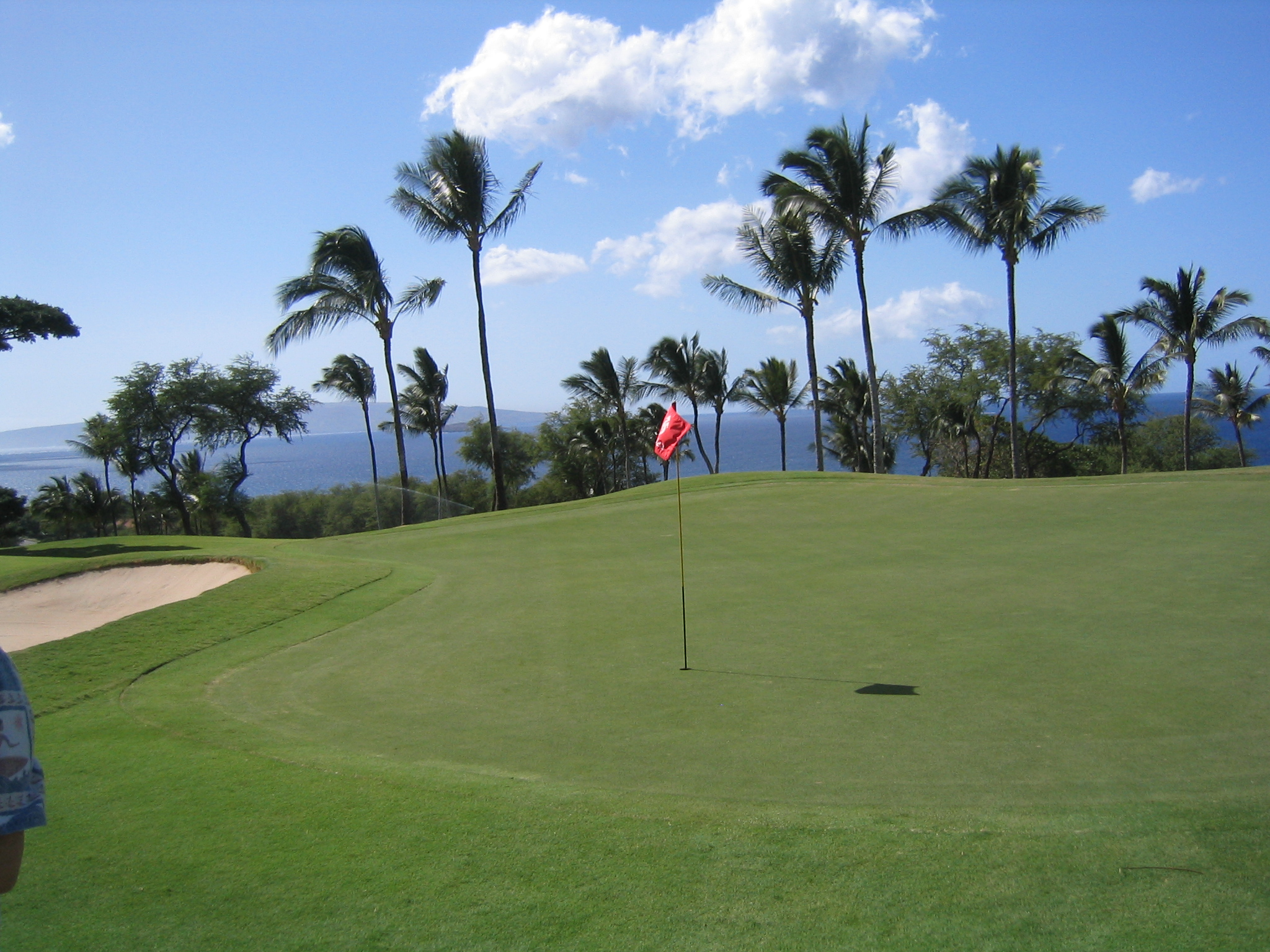 View from Wailea Gold Golf Course